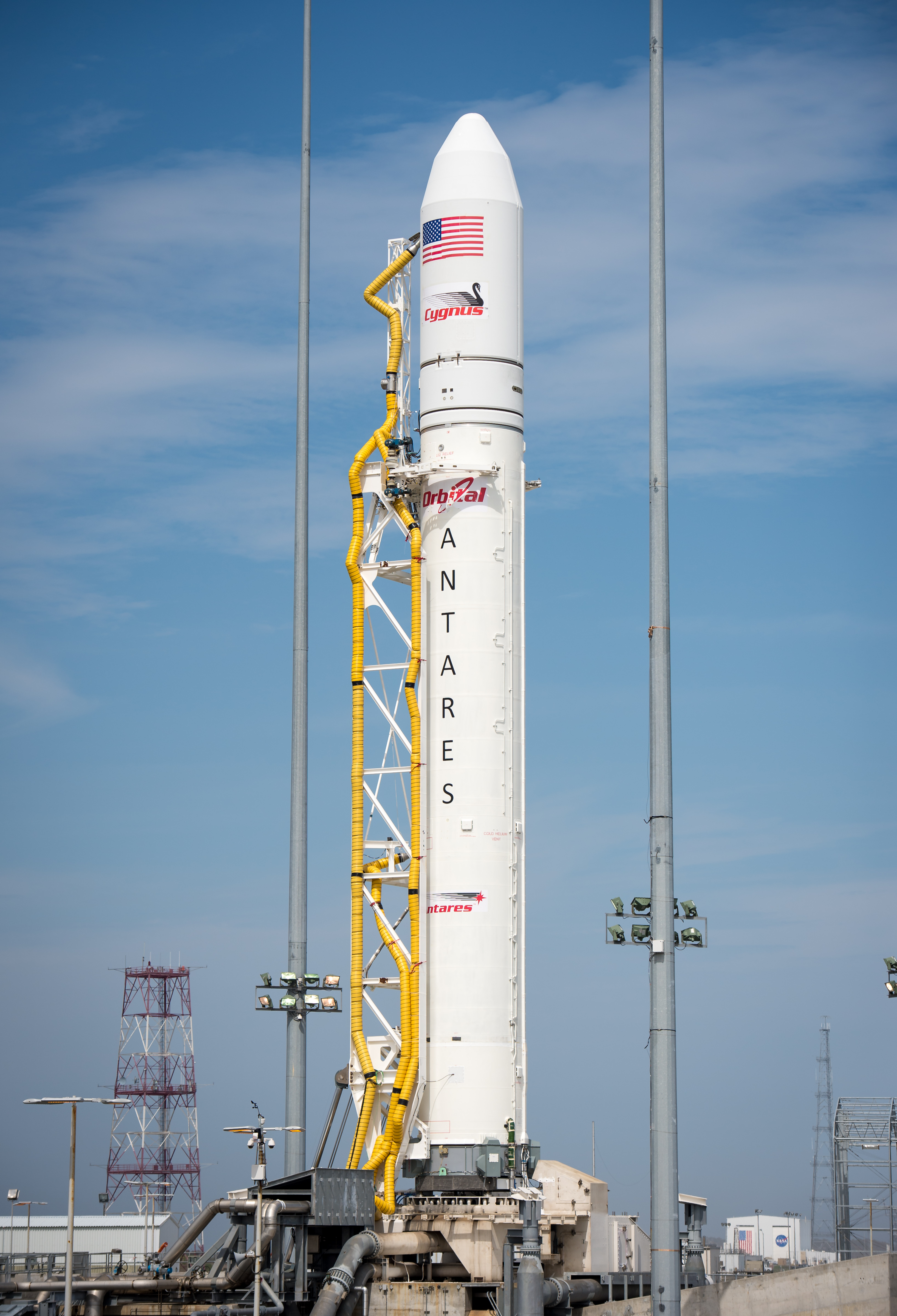 The Orbital Sciences Corporation Antares rocket is seen on the Mid-Atlantic Regional Spaceport (MARS) Pad-0A at the NASA Wallops Flight Facility, Friday, April 19, 2013 in Virginia. NASA's commercial space partner, Orbital Sciences Corporation, is scheduled to test launch its first Antares on Saturday, April 20, 2013.